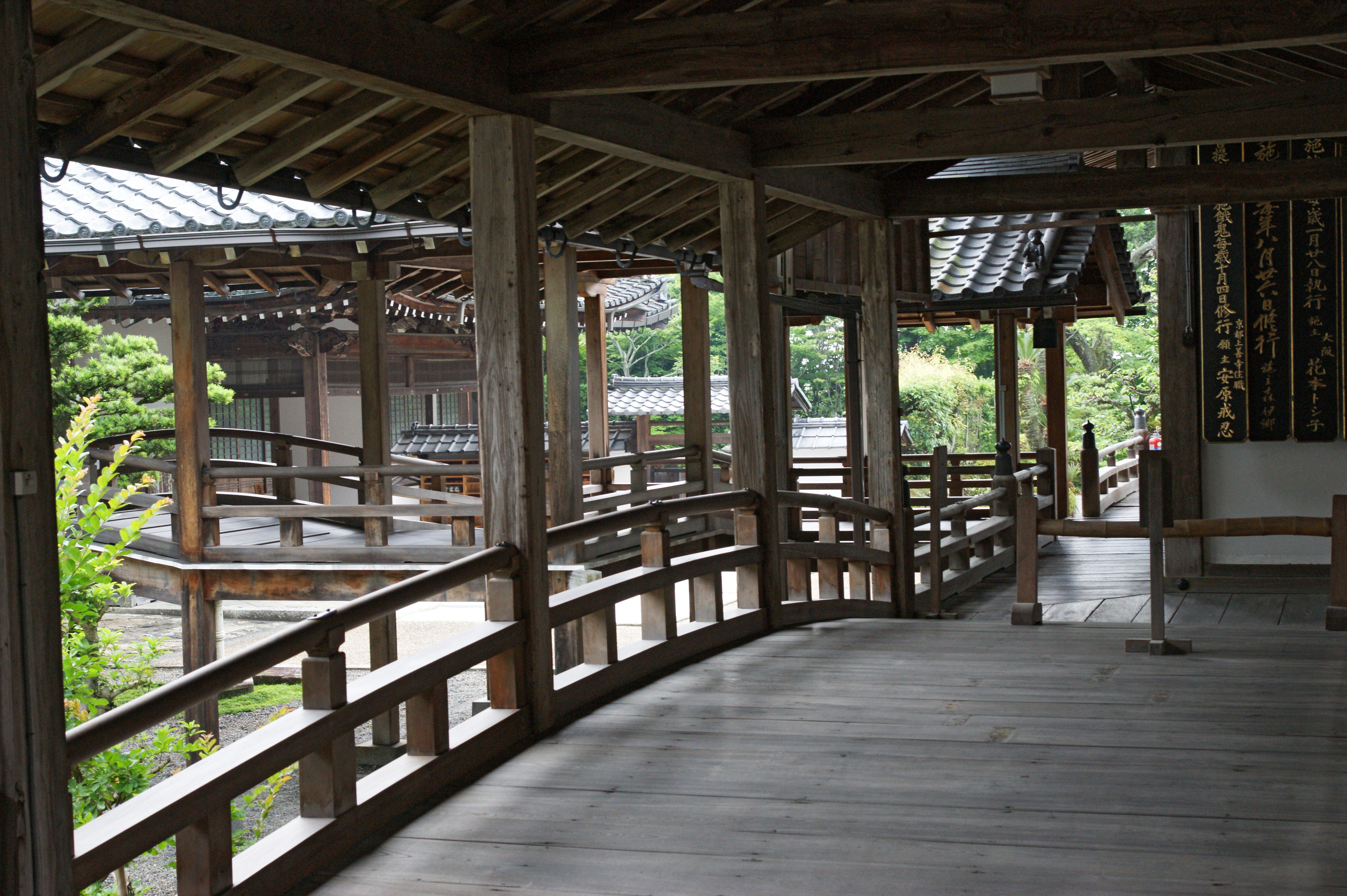 Saikyoji in Sakamoto, Otsu, Shiga prefecture, Japan